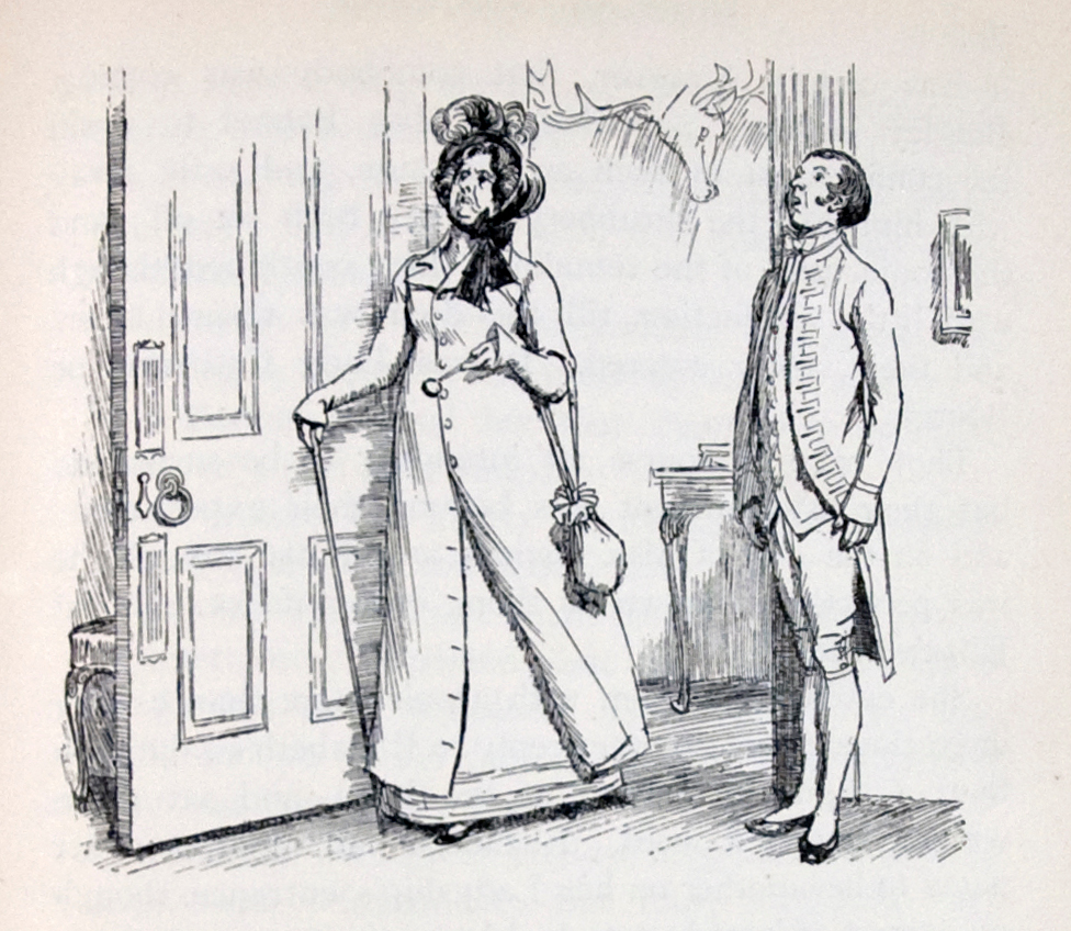 Image at the beginning of Chapter 56. Lady Catherine de Bourgh comes to visit Elizabeth. Austen, Jane. Pride and Prejudice. London: George Allen, 1894.